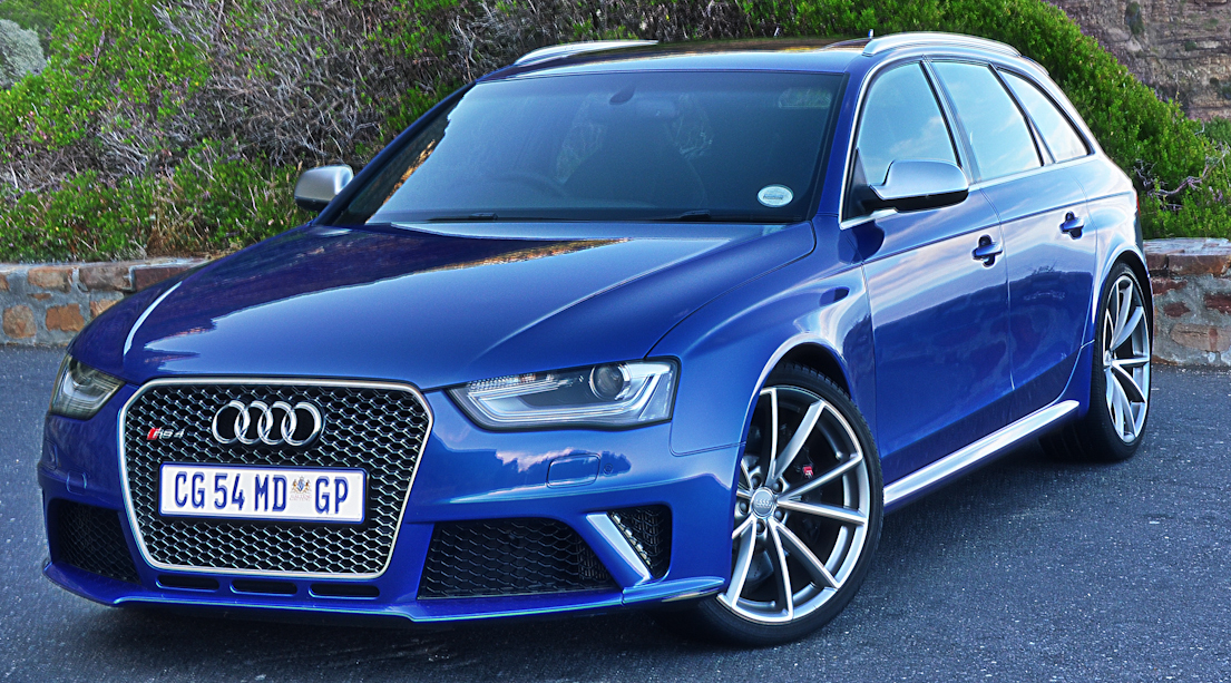 From a recent review for Rocking Cars